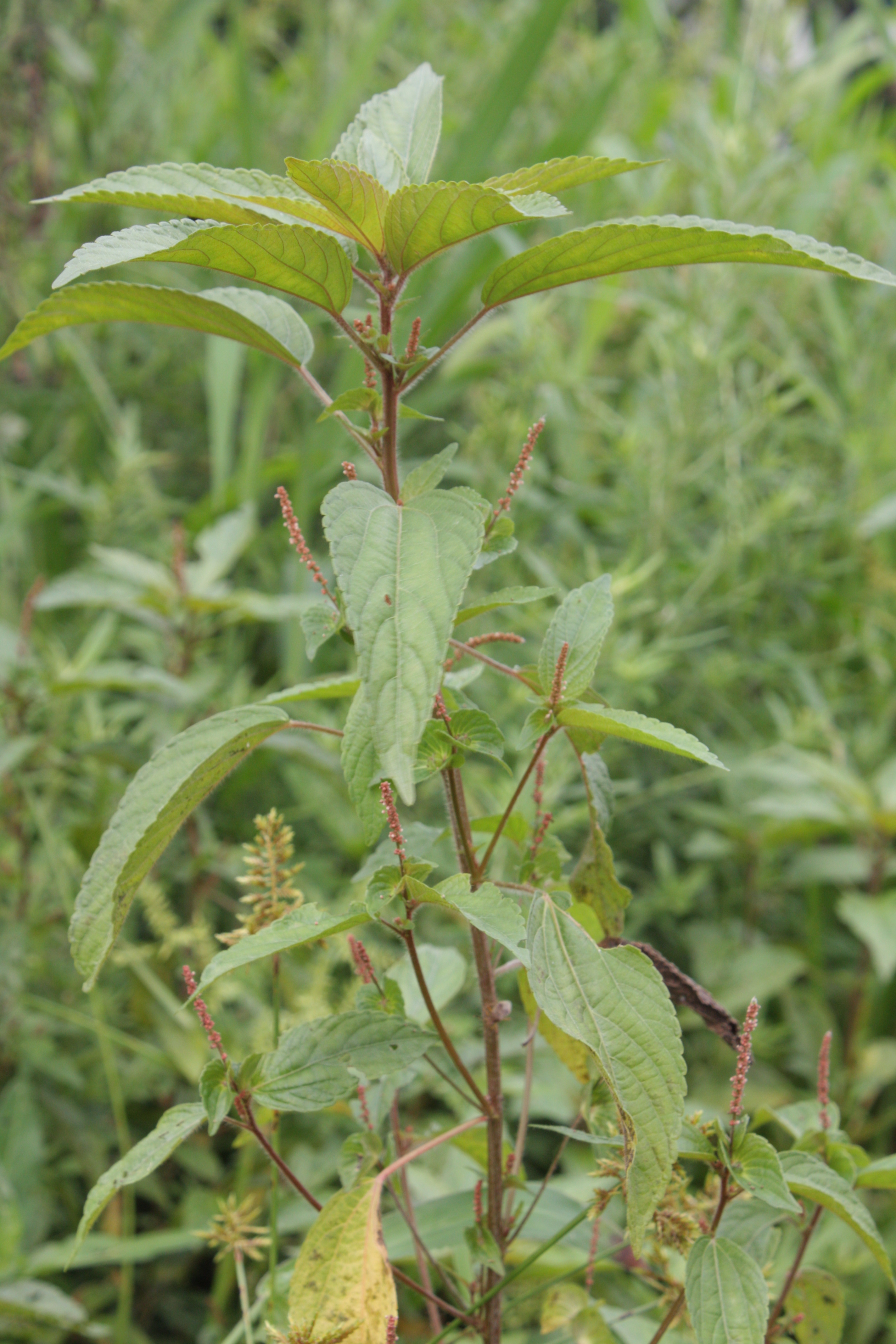 Acalypha australis in Sunchang, Korea